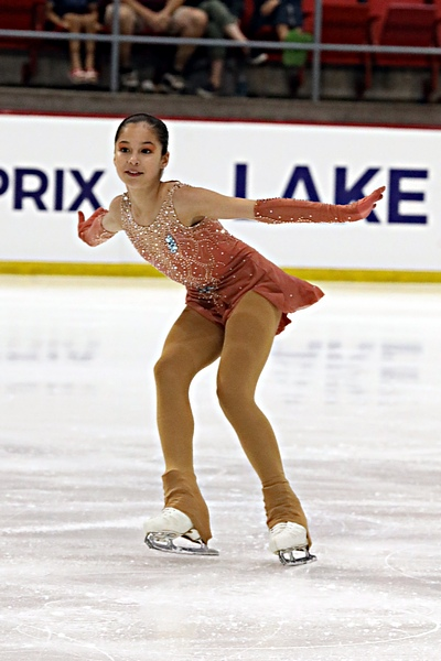 Alysa Liu at the 2019 JGP Lake Placid - SP